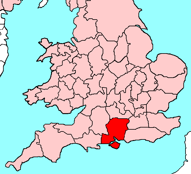 Hampshire